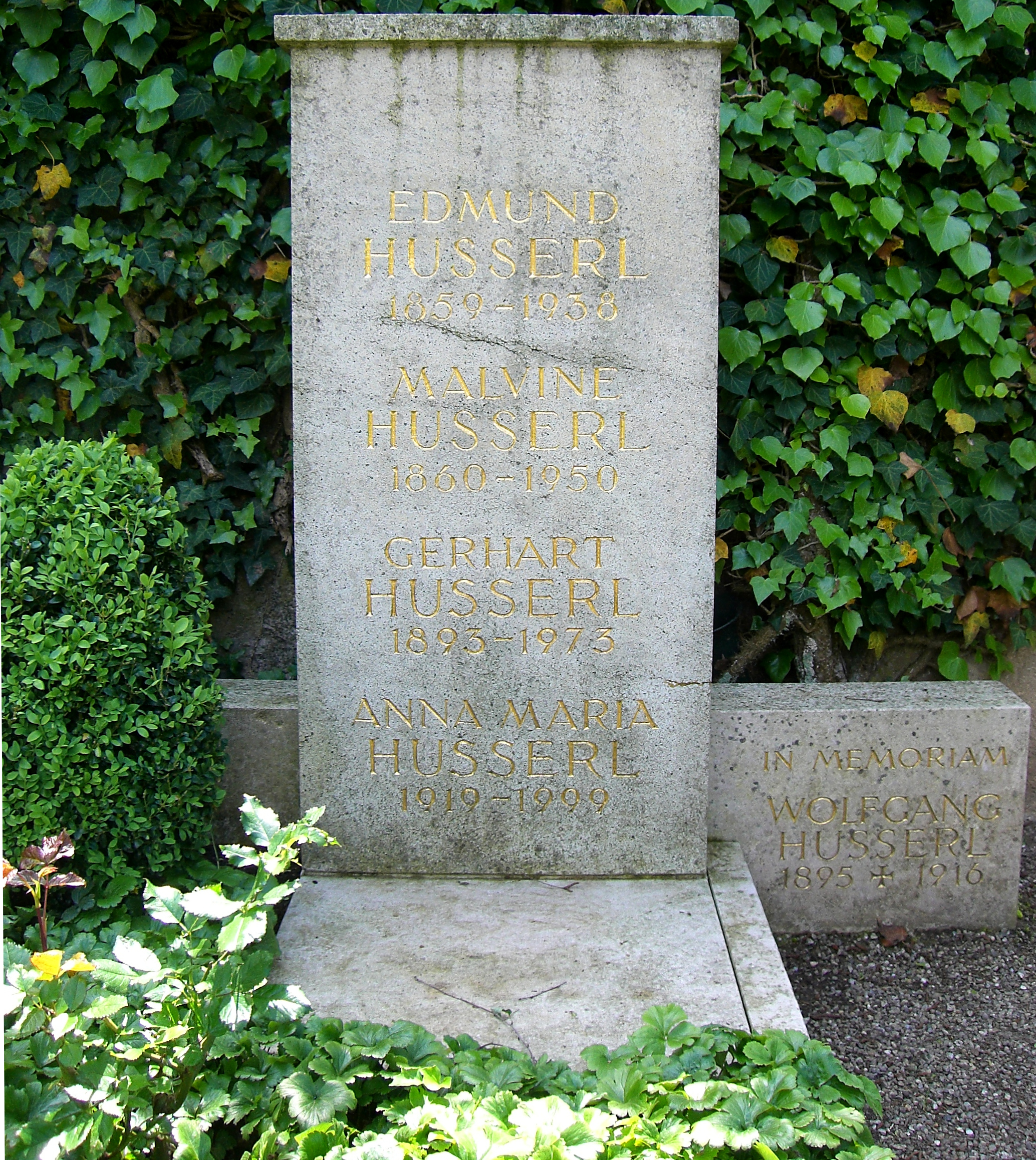 This is a retouched picture, which means that it has been digitally altered from its original version. Modifications: Enhanced contrast. Grave of Edmund Gustav Albrecht Husserl (1859 - 1938) was a German philosopher, known as the father of phenomenology. - Google Maps - Google Earth